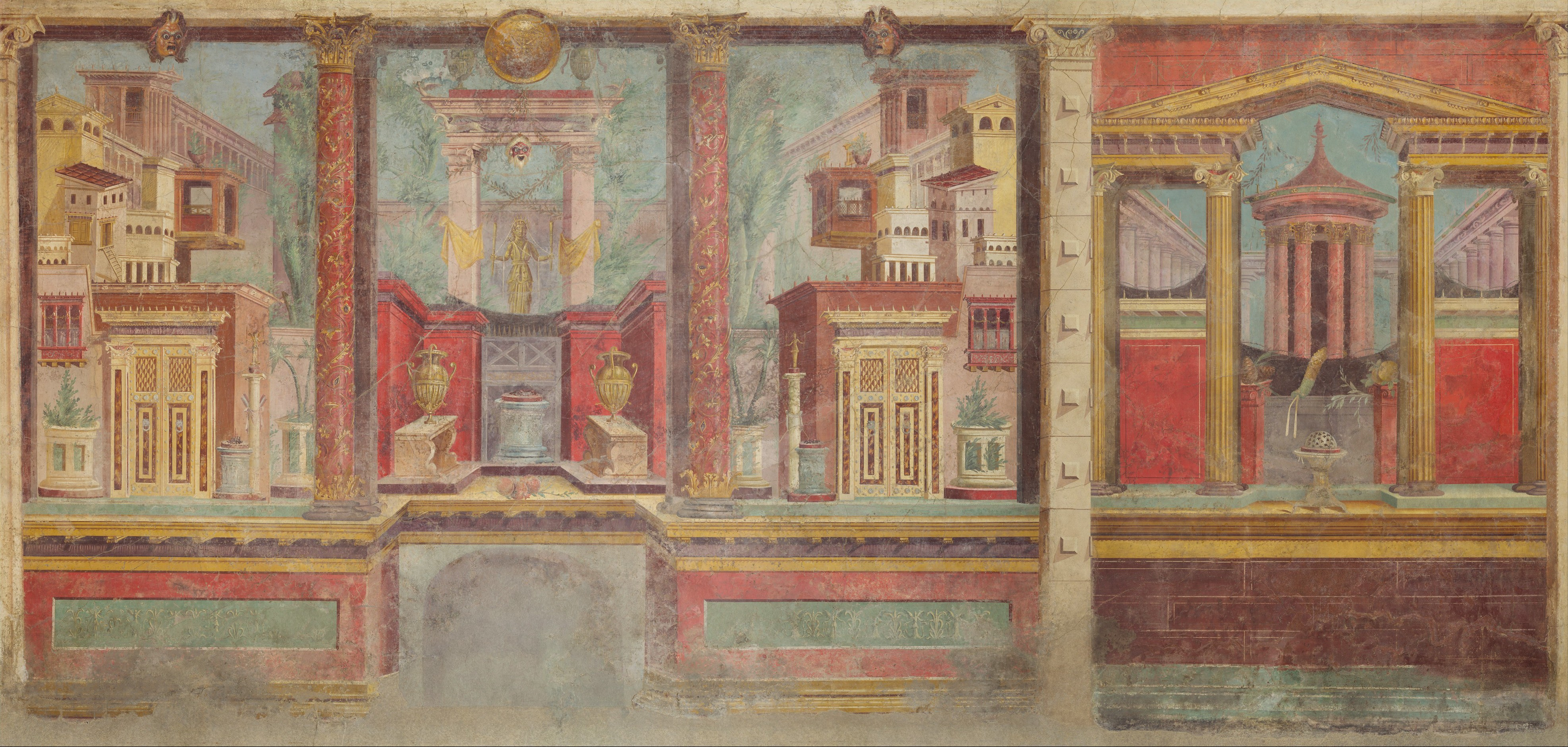 Roman; Cubiculum (bedroom) from the Villa of P. Fannius Synistor; Miscellaneous-Paintings